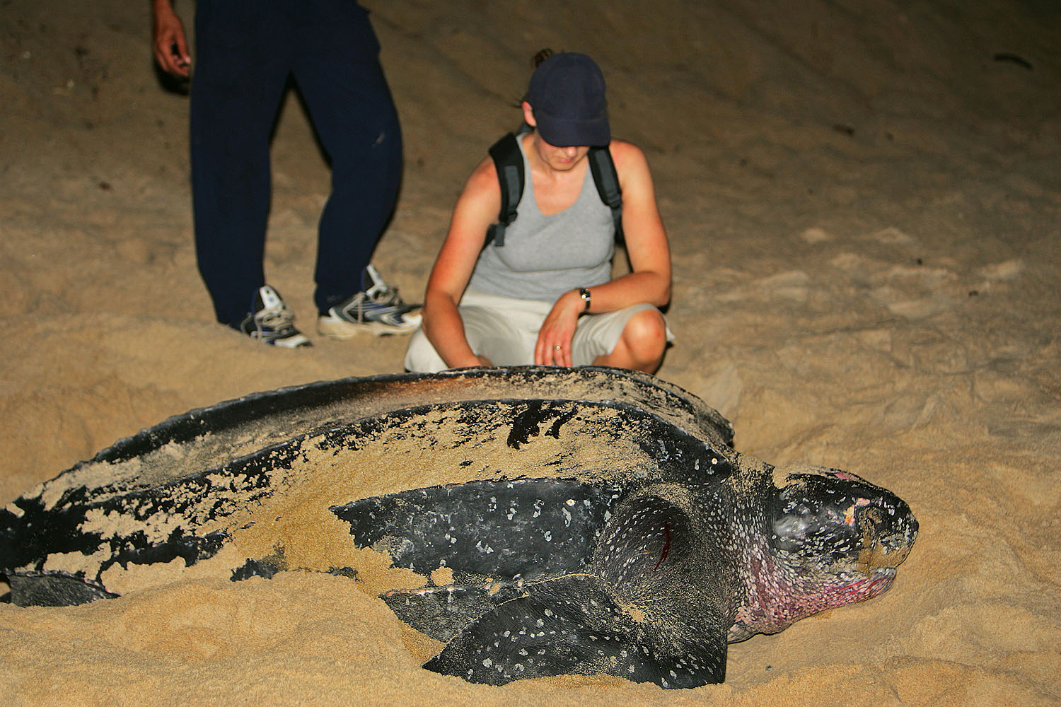 Marian sits beside this massive female Leatherback to demonstrate it's size. The turtle was radio-tagged after laying (image taken on Matura beach, Trinidad). I have a fascination with these charismatic chelonians.: they are huge, supremely designed, very endangered AND are part of Scotland's Wildlife Heritage! Every year small numbers of large Leatherbacks visit the Celtic Sea to feed on the bloom of Jellyfish. To read more about these fascinating creatures follow this link